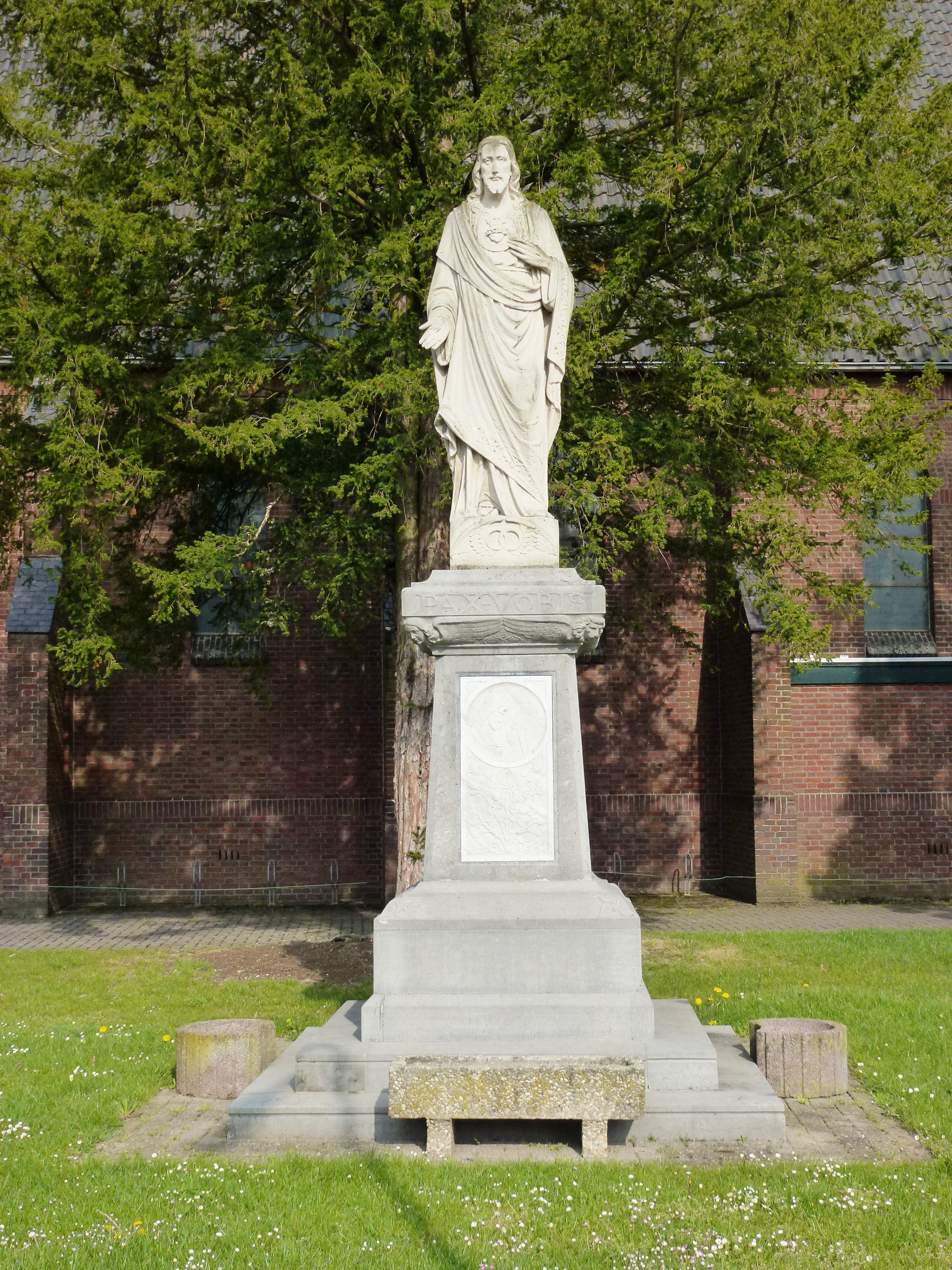 Brachterbeek (Maasgouw) H.Hartbeeld bij kerk